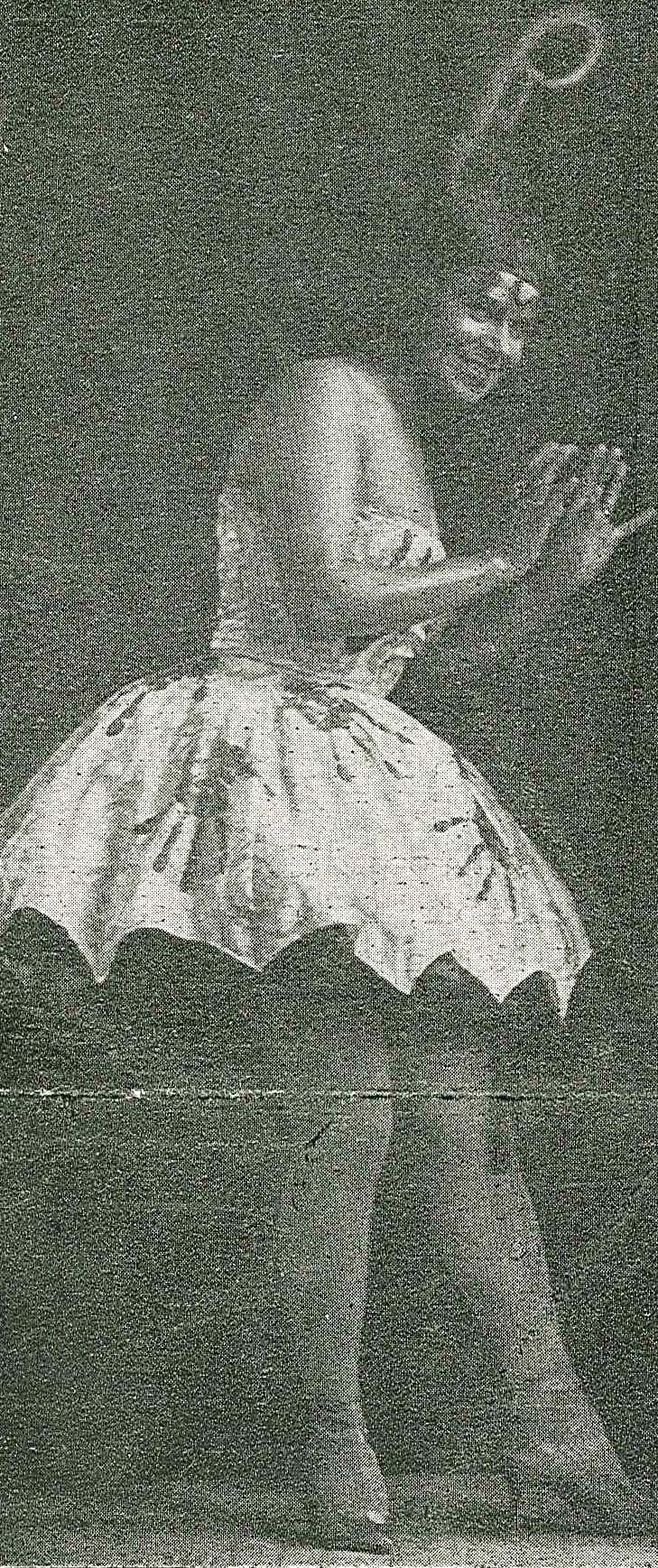 Lilly Gräber (1893-1965), Swedish actress and artist (painter); here in a costume from the autumn revue of 1916 at Folkteatern in Gothenburg.